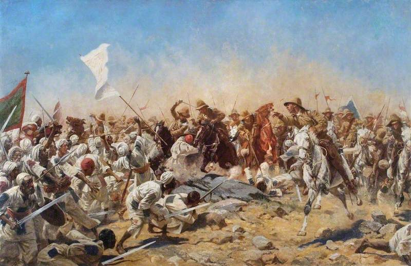 Charge of the 21th lancers at Ondurman. Oil on canvas